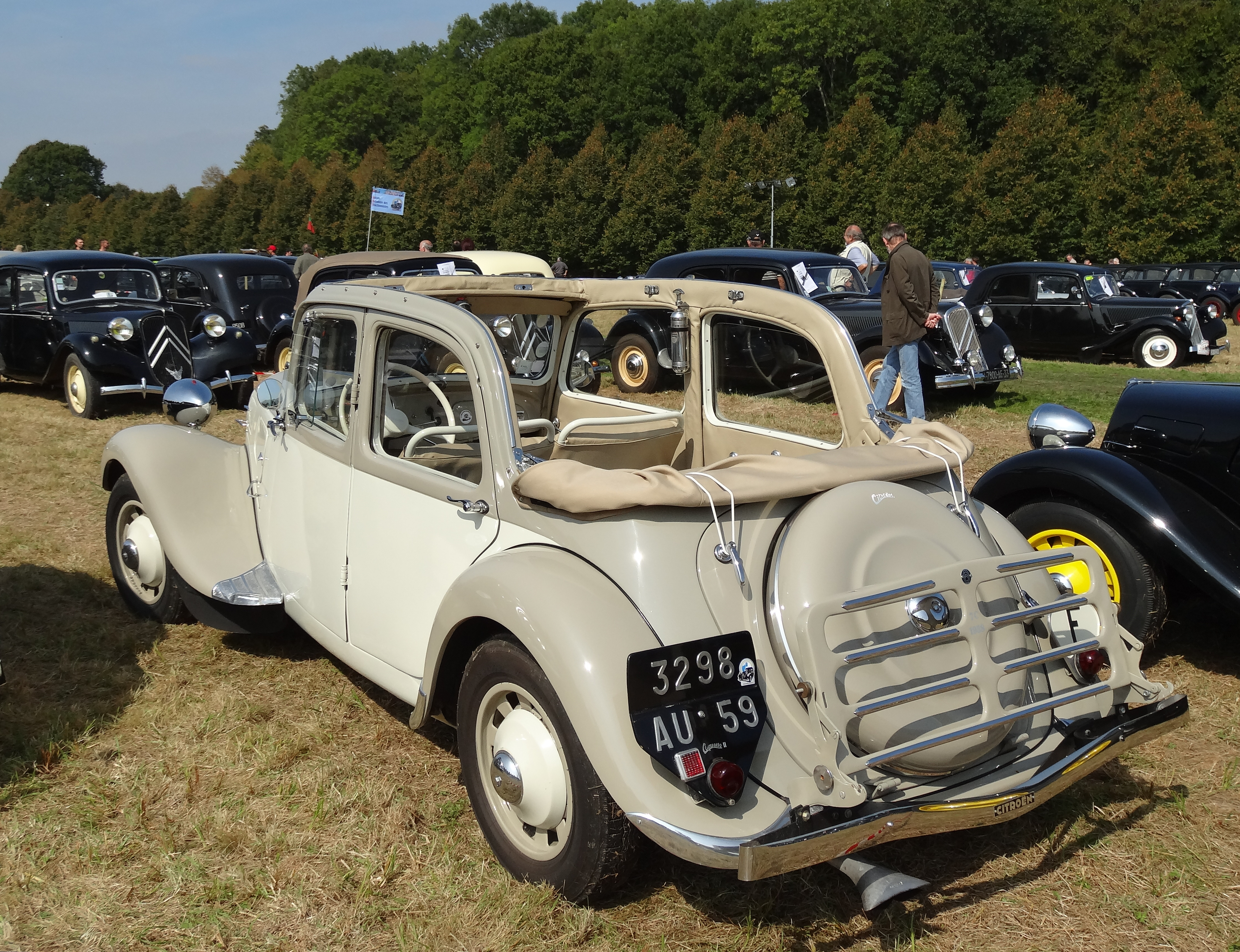 Citroën Traction Avant découvrable